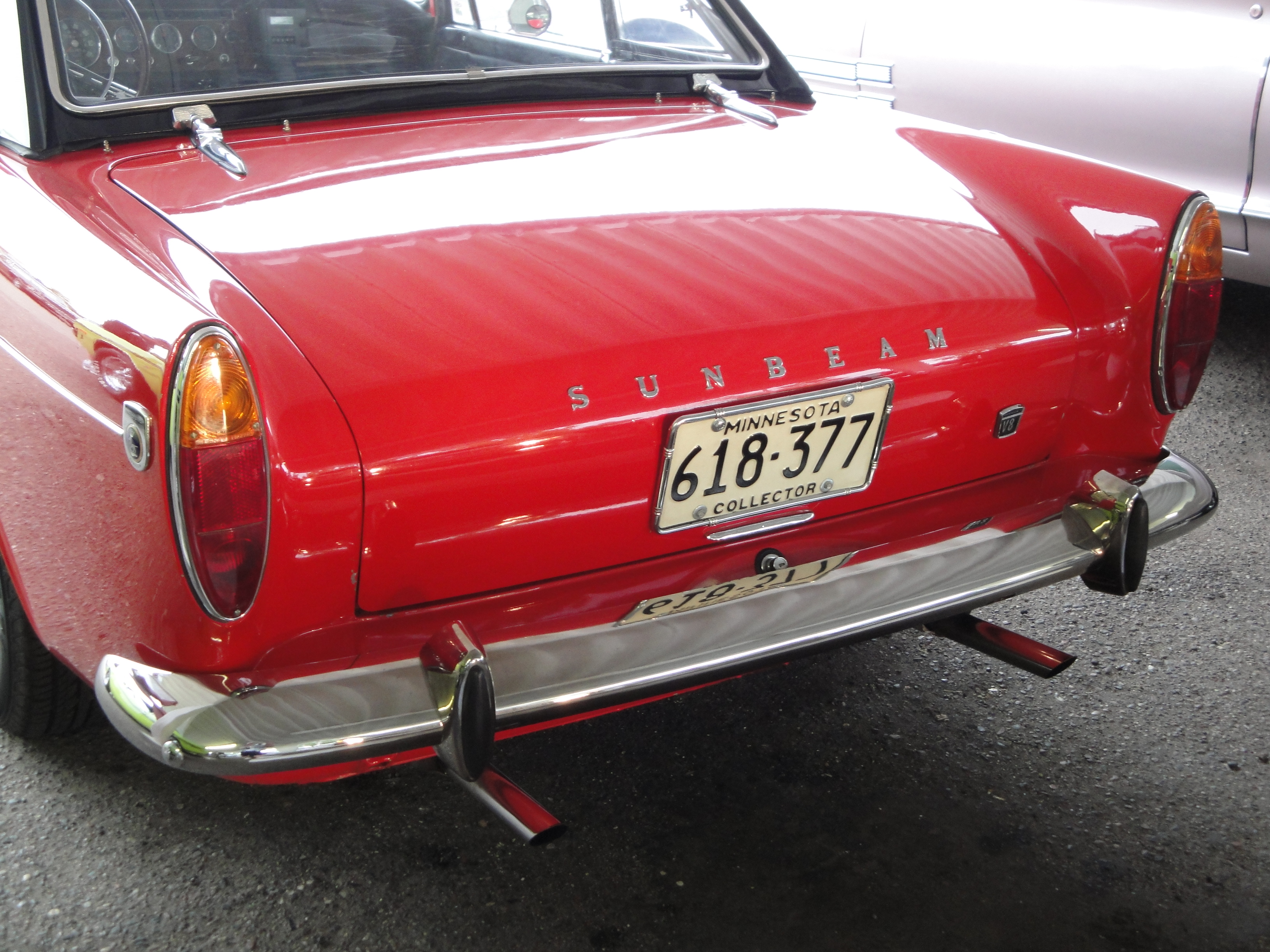 W.P.C. Restorers Club 10,000 Lakes Region Car Show June 12, 2011 Wagner's Drive in